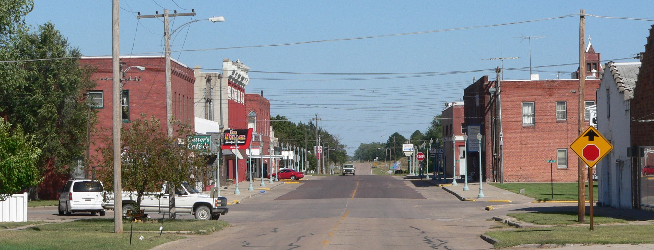 Downtown Red Cloud, Nebraska: looking eastward along 4th Avenue (U.S. Highway 136) from about Seward Street.